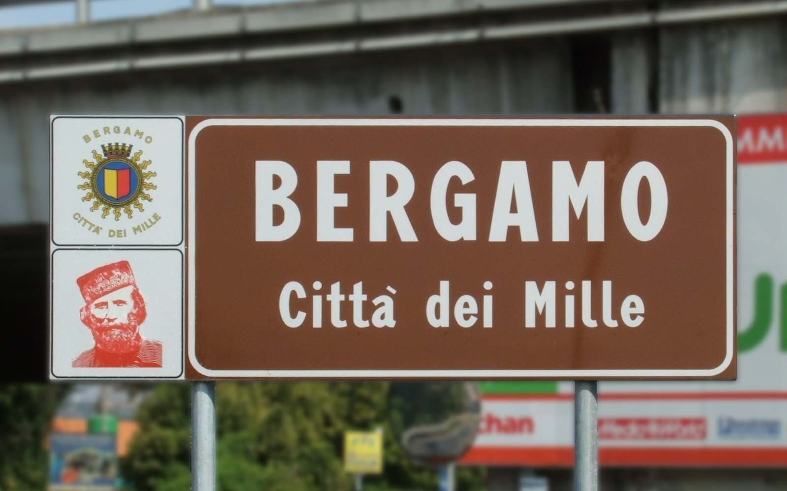 City limit sign of Bergamo installed in 2007 for bicentenary of Garibaldi birth